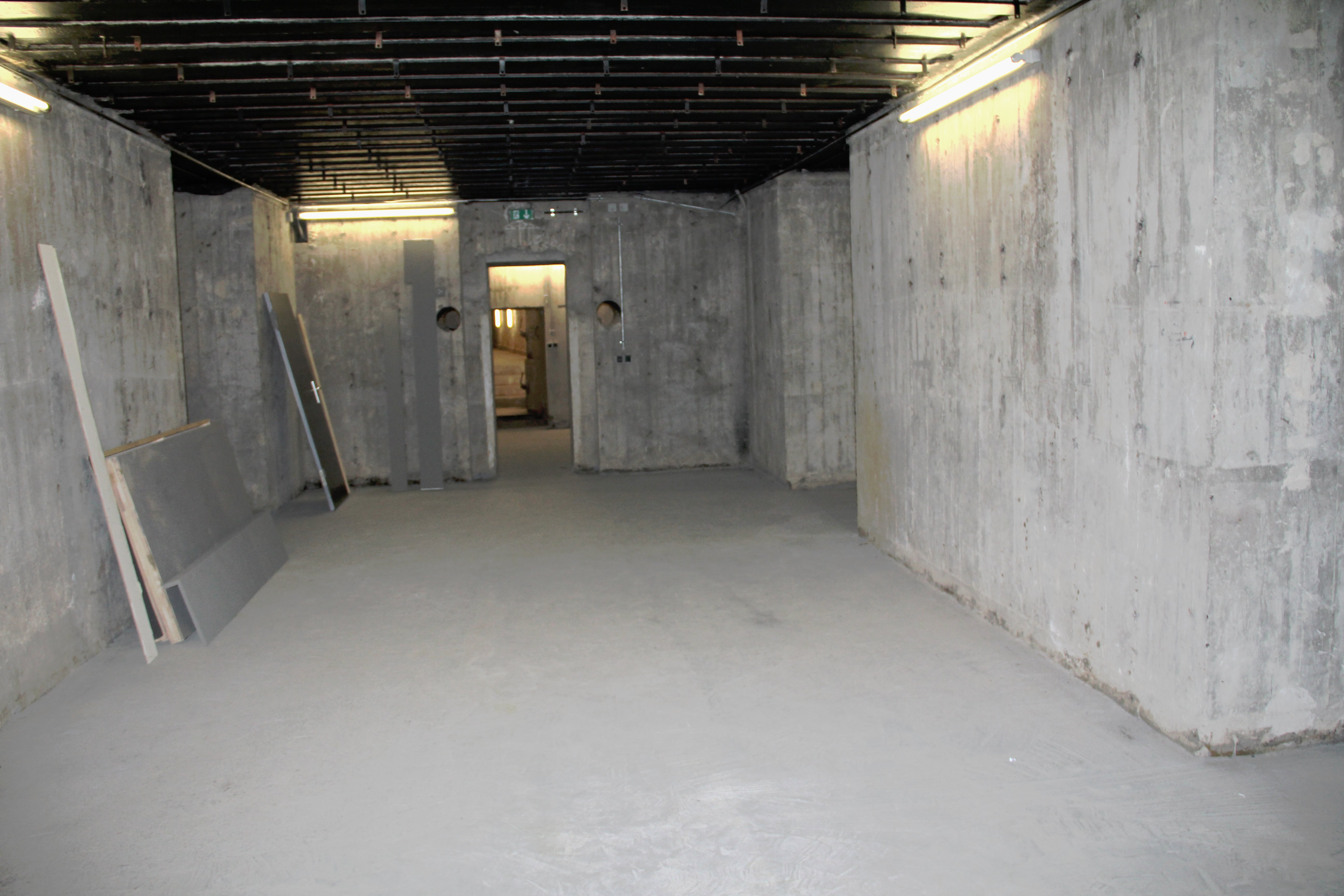 Inner of the bunker under the Kransberg Castle (Germany). Part of Führer Headquarters Adlerhorst